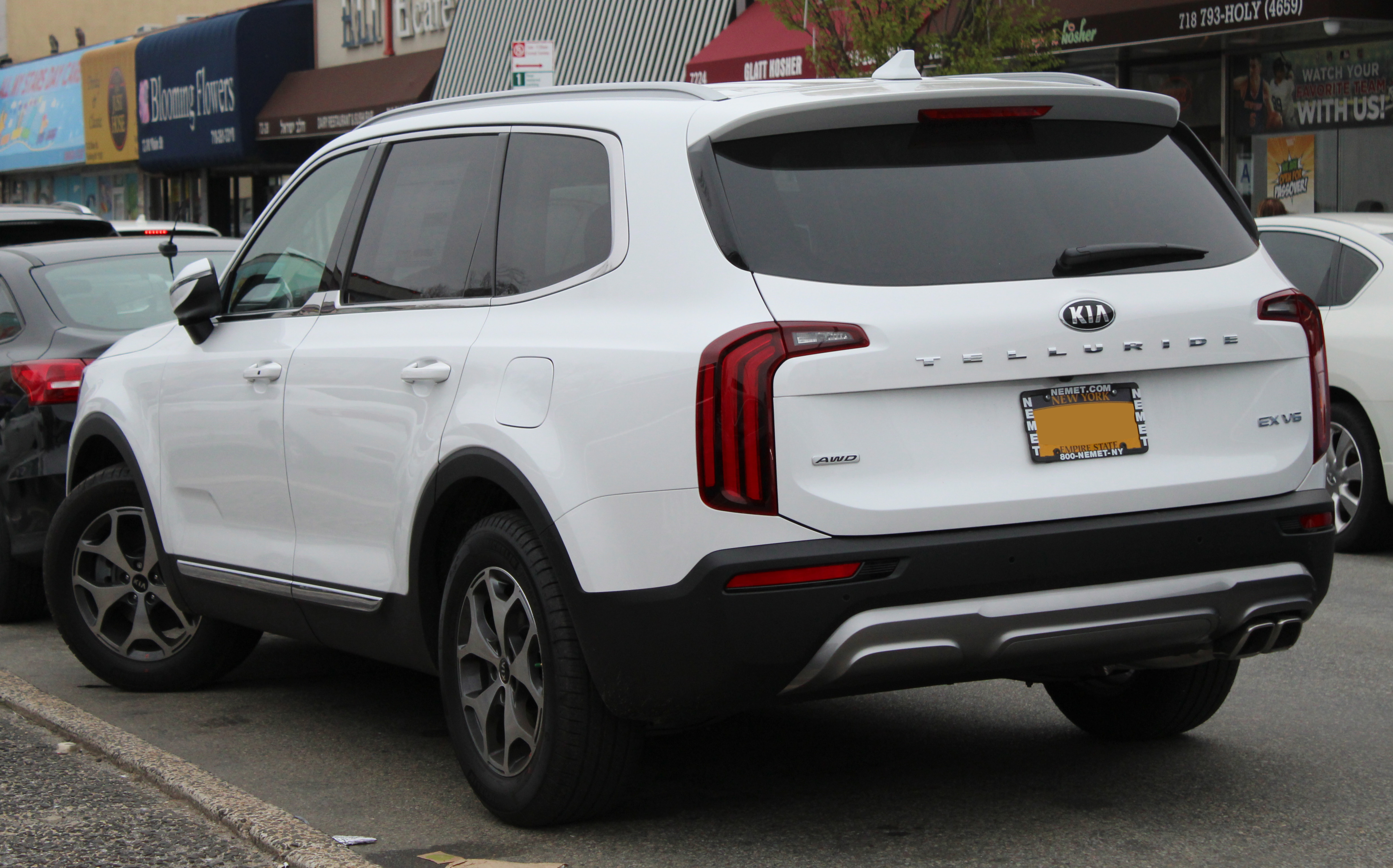 A 2019 Kia Telluride photographed in Kew Gardens Hills, Queens, New York, USA}